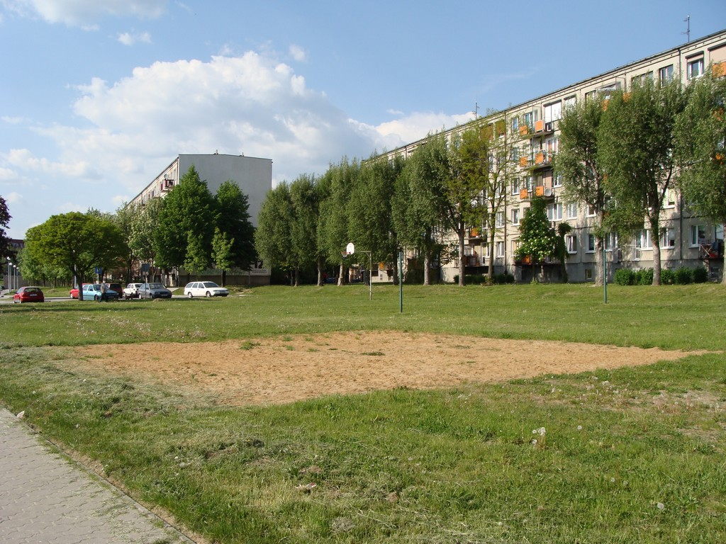 Śrem, sports fields for basketball and Pétanque.